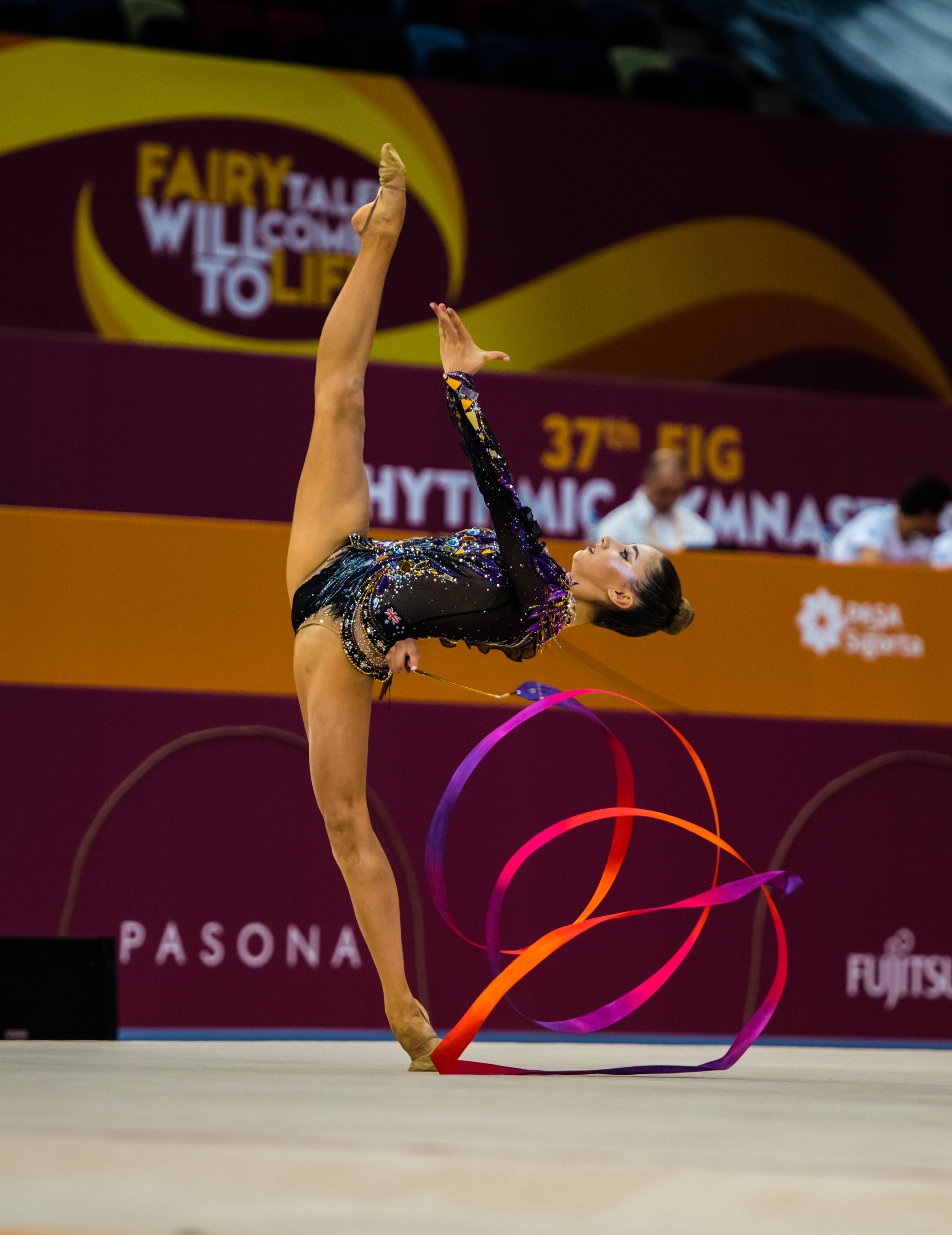 Australian Rhythmic GymnastAlexandra Kiroi-Bogatyreva performing with ribbon during 2019 Rhythmic Gymnastics World Championships in Baku, Azerbaijan. Alexandra_Kiroi-Bogatyreva